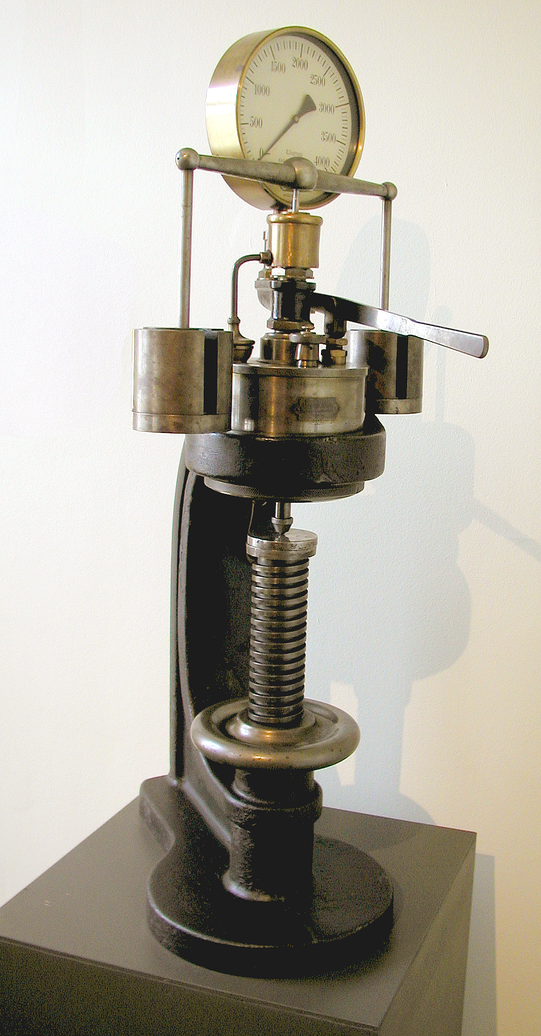 Brinell machine used to measures hardness of metals. Photo taken at Eskilstuna stadsmuseum (city museum), in Eskilstuna, Sweden